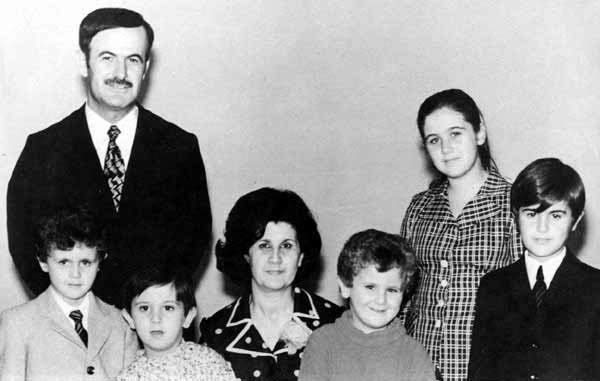 President Hafez al-Asad with his family in the early 1970s. From left to right: Bashar, Maher, Mrs Anisa Makhlouf (then the new First Lady of Syria), Majd, Bushra, and Basil.